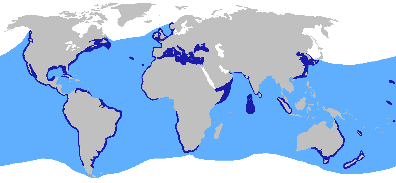 Distribution map for Alopias vulpinus